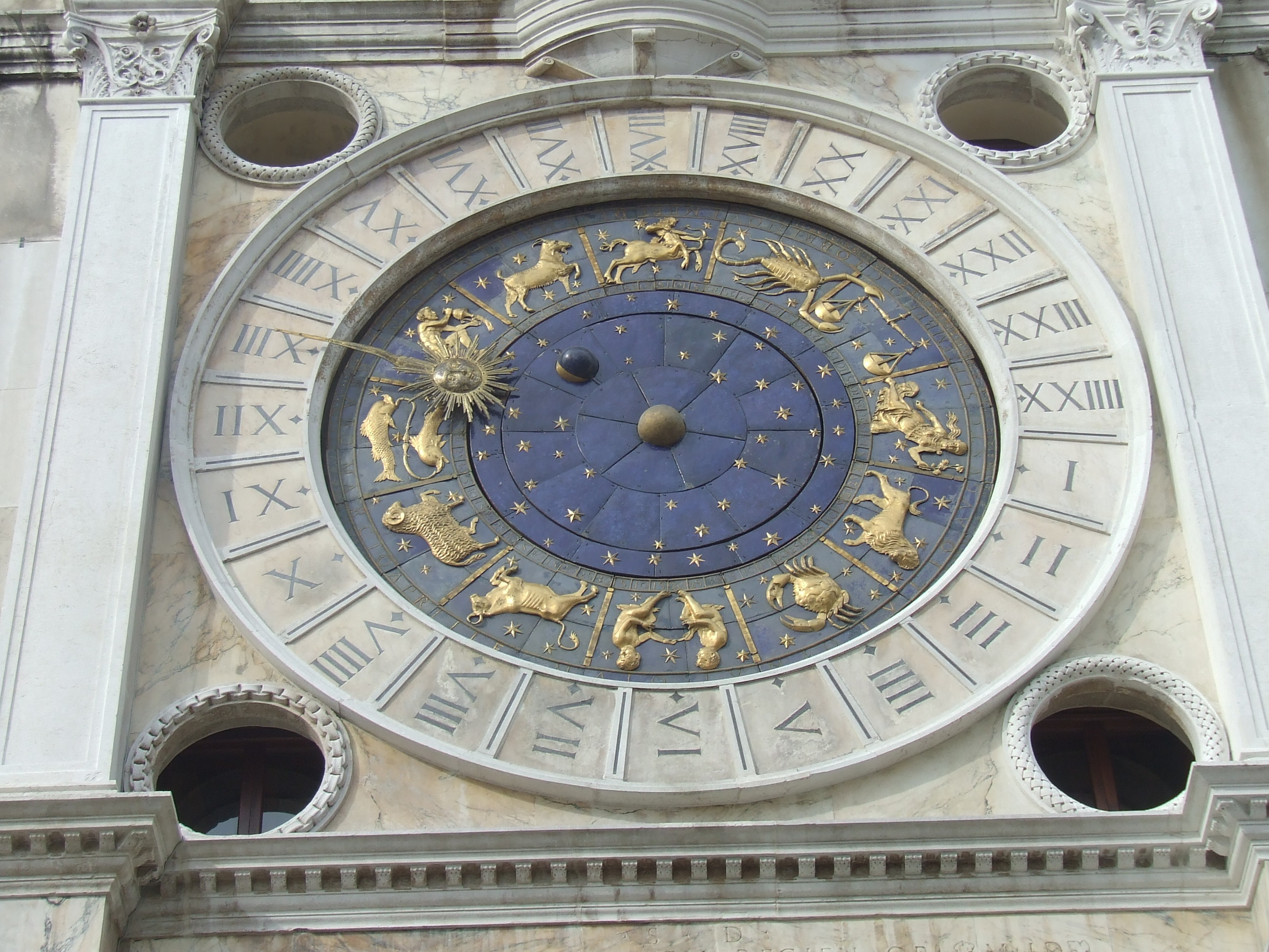 The restored Clock of San Marco in Venice, Italy